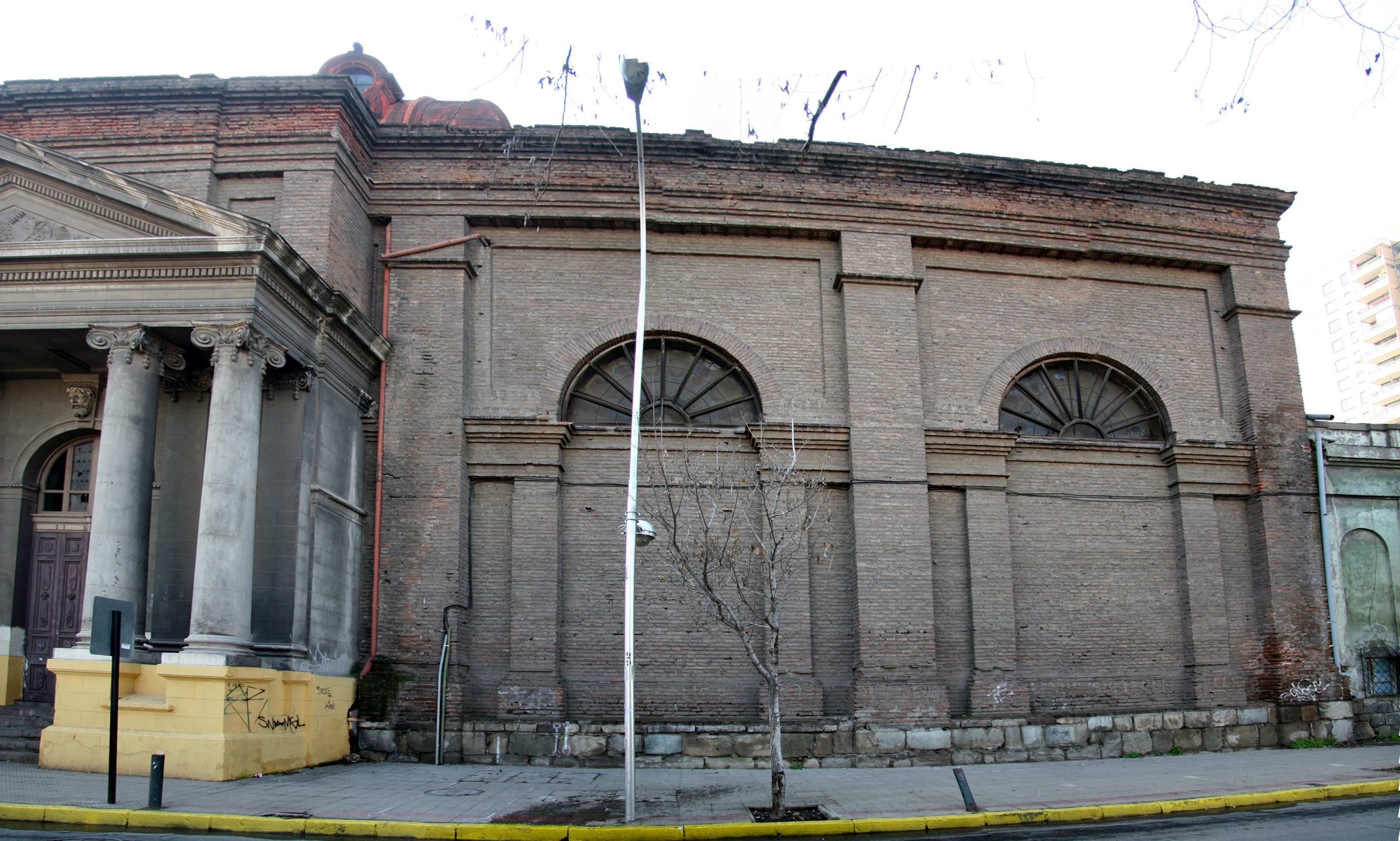 Left side of the San Isidro Labrador Church